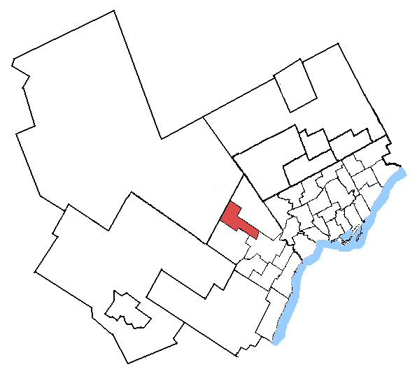 Map of the Brampton—Springdale electoral district. Based on Earl Andrew's maps, created by SimonP.